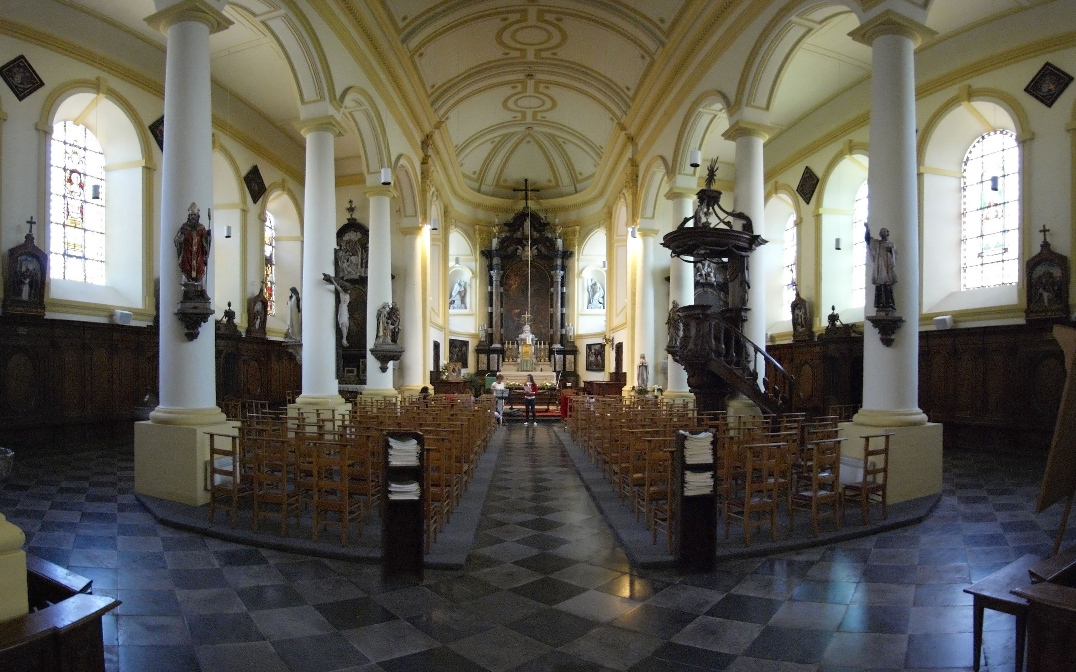 Inside the Notre-Dame de l'Assomption church in Bossut-Gottechain, Belgium